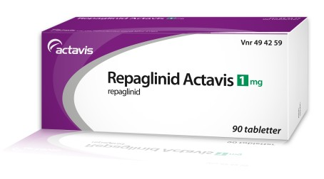 Repaglinide, antidiabetic drug